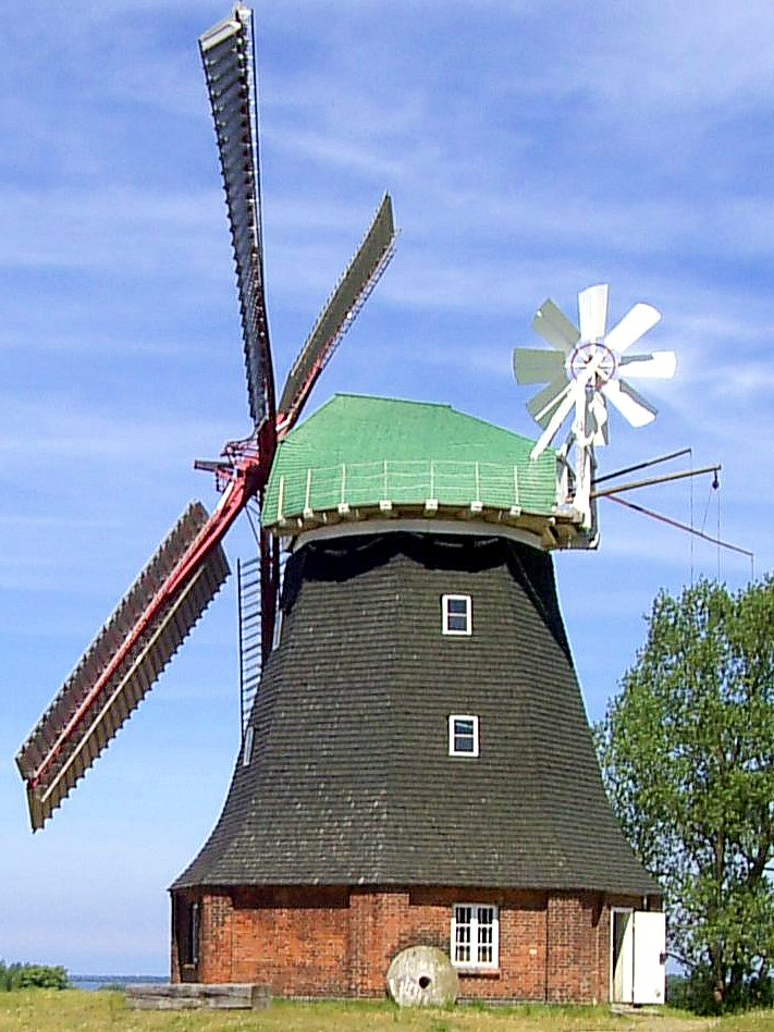 Stove Mill, Mecklenburg-Vorpommern, Germany